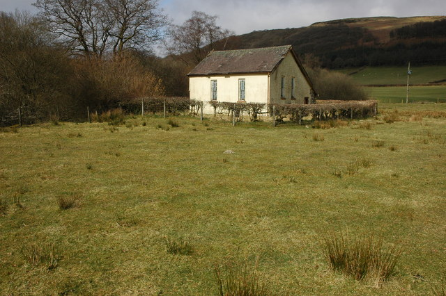 Abergwesyn church The small church of Llanddewi (St David's) in Abergwesyn doesn't appear to be used any more.